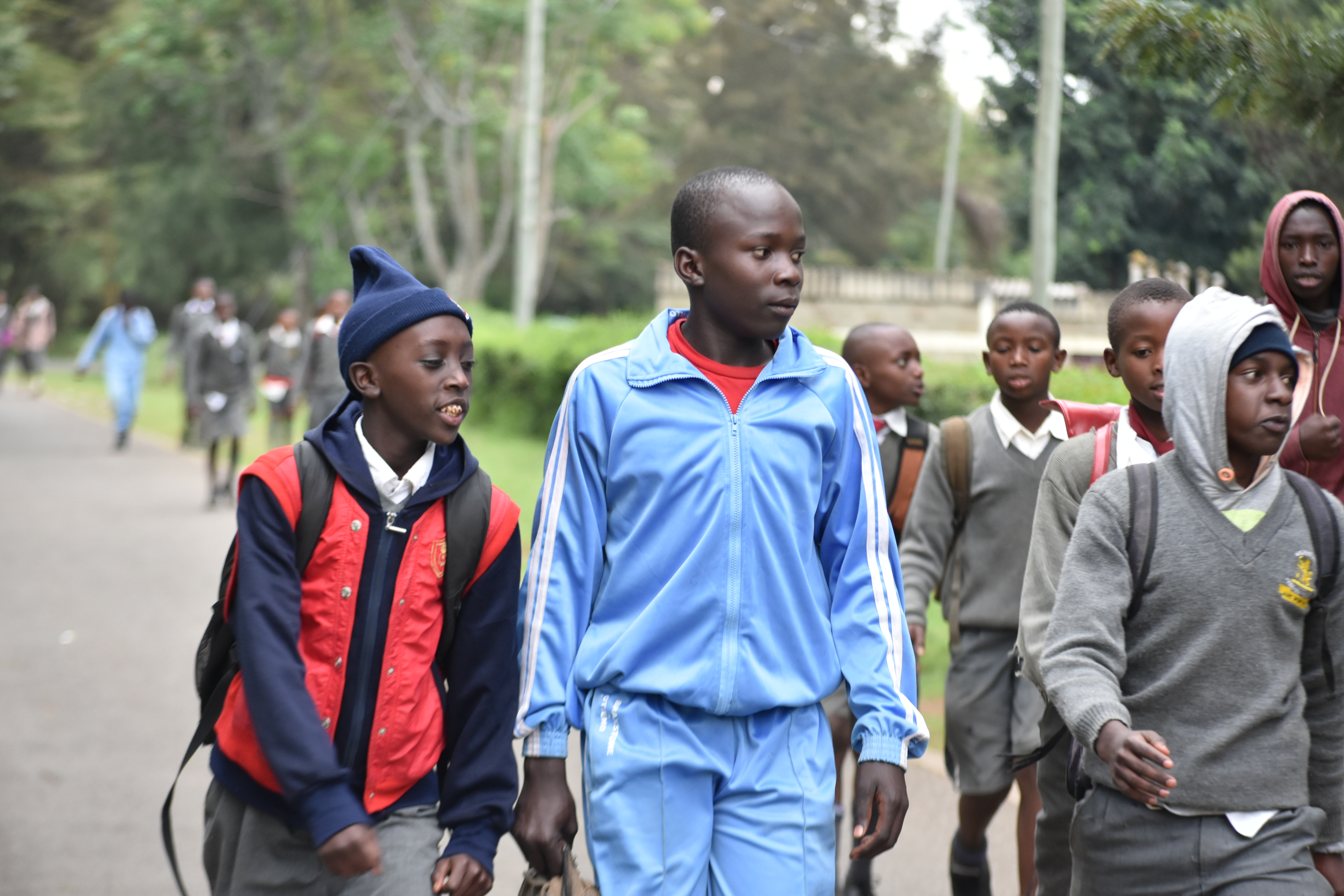 Pupils, whose families may not necessarily afford money for transporting children to and fro school, usually travel in groups for security and socializing. Here is a group of such pupils going home after a long day in school. This is an image with the theme "Africa on the Move or Transport" from: Kenya